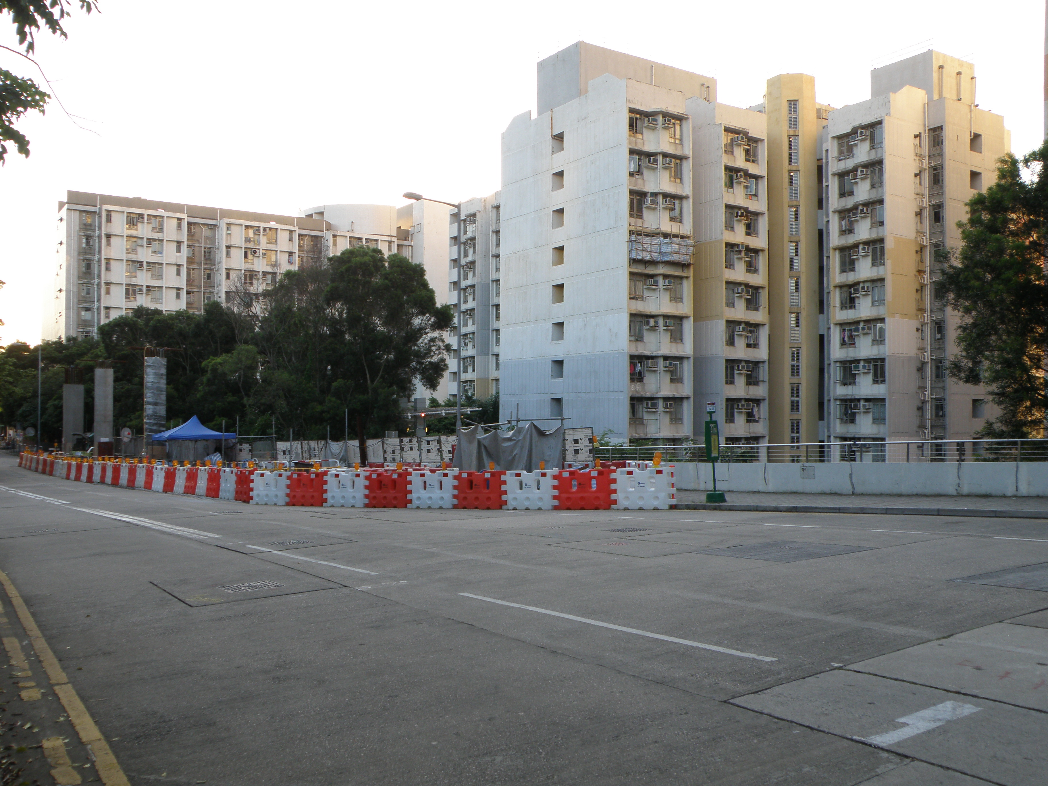 Kwun Fai Court, a Home Ownership Scheme residence in Ho Man Tin, Hong Kong.